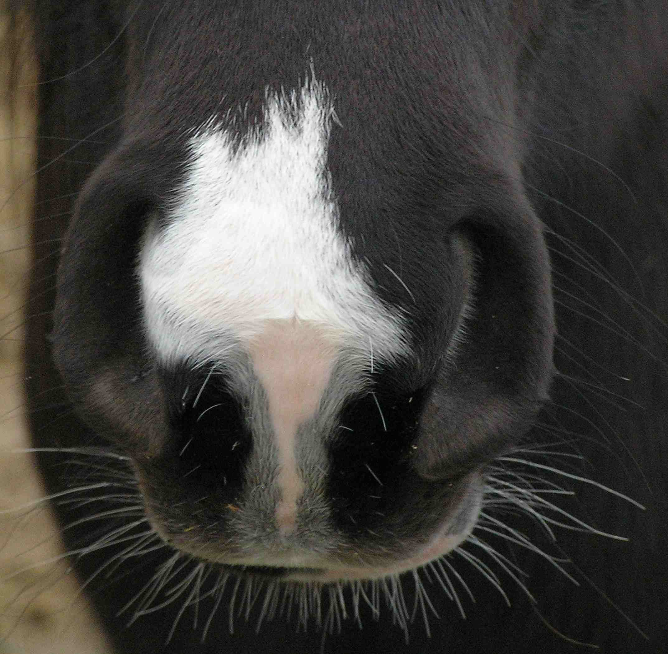 A horse's muzzle, in winter